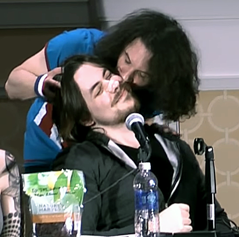 The main hosts of Game Grumps share a silly kiss on stage, Magfest 2015.